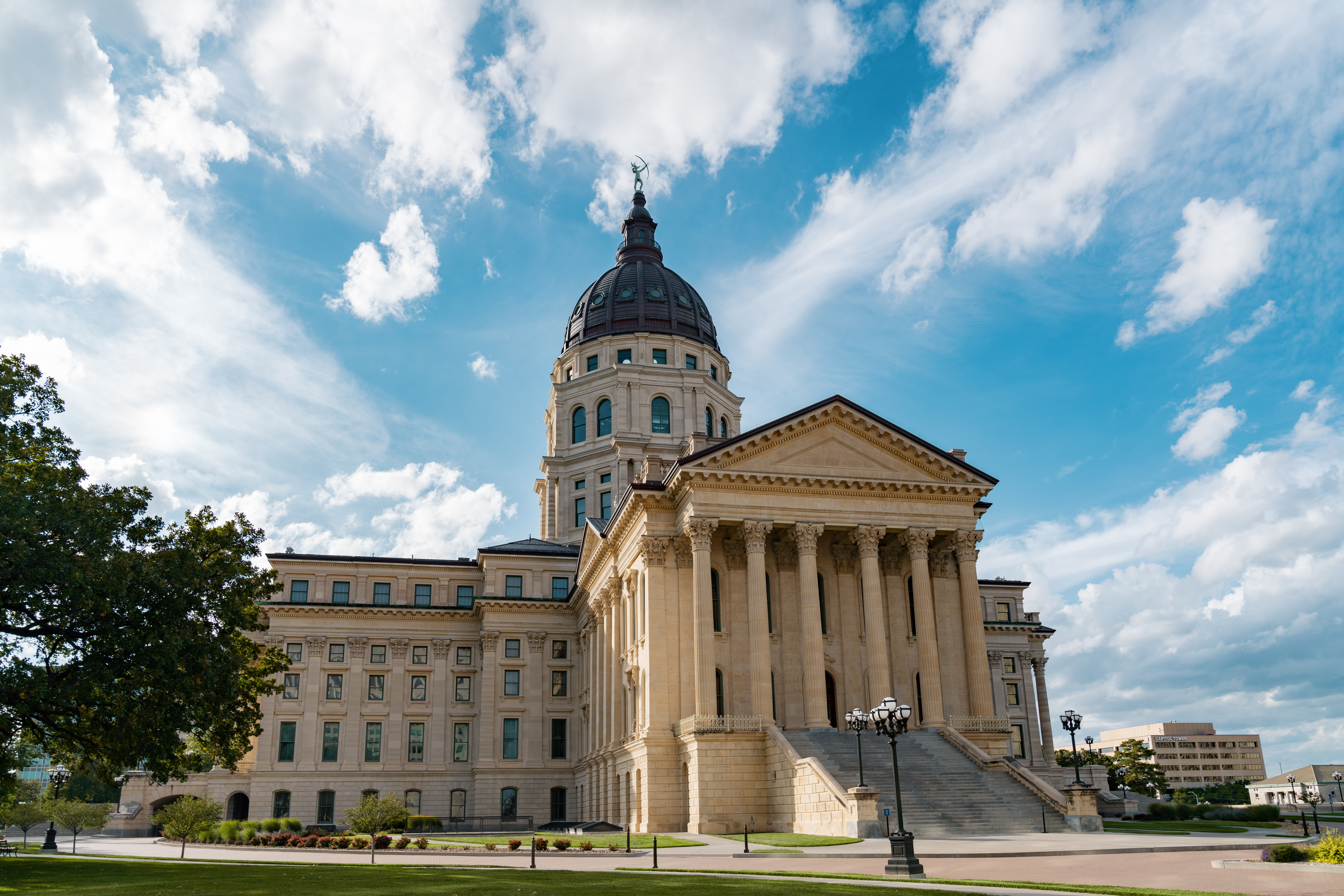 The Kansas State Capitol in Topeka, Kansas. -- (c) 2018 Tony Webster +1 (202) 930-9200